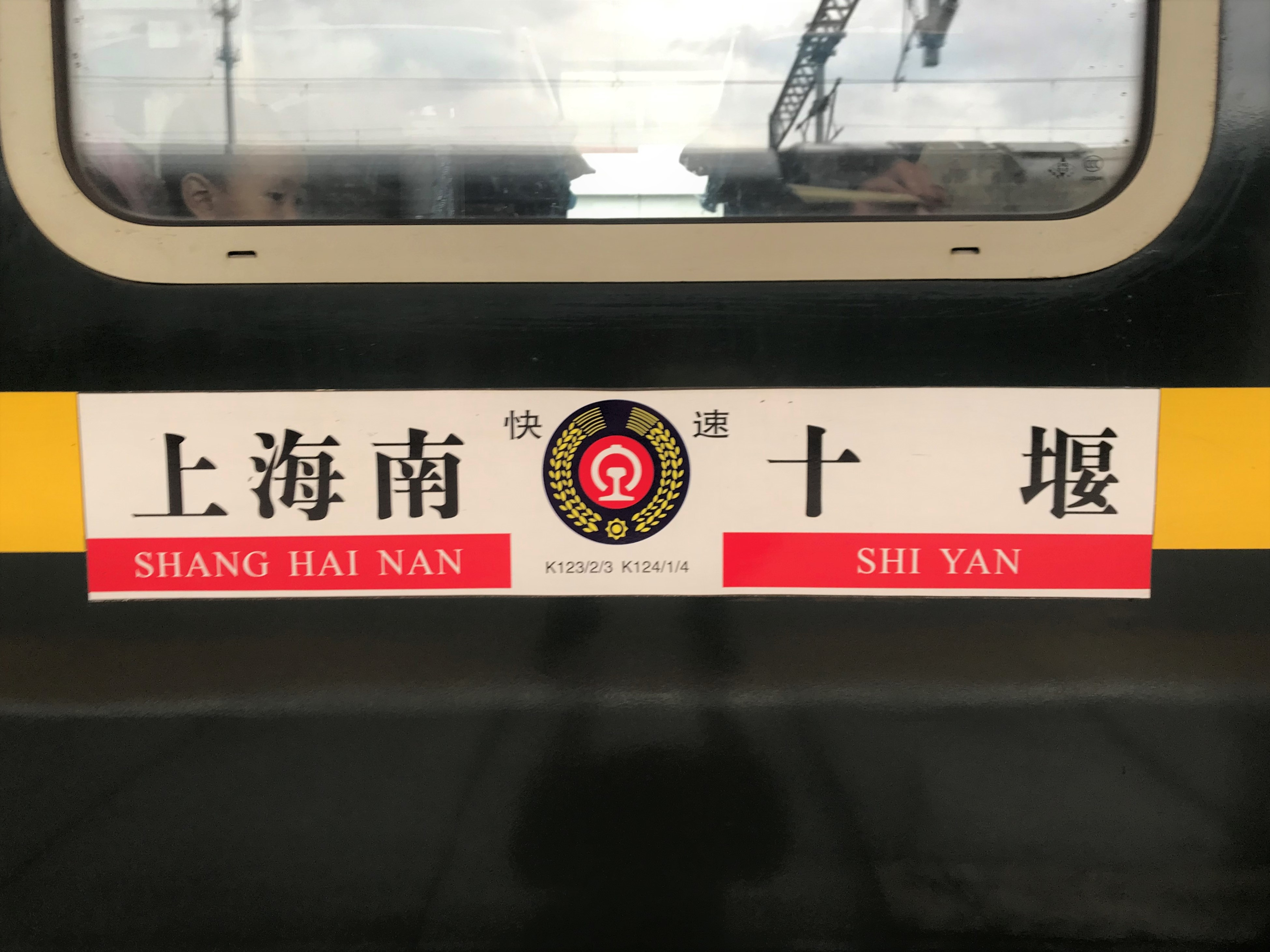 Taken at Jinhua Station